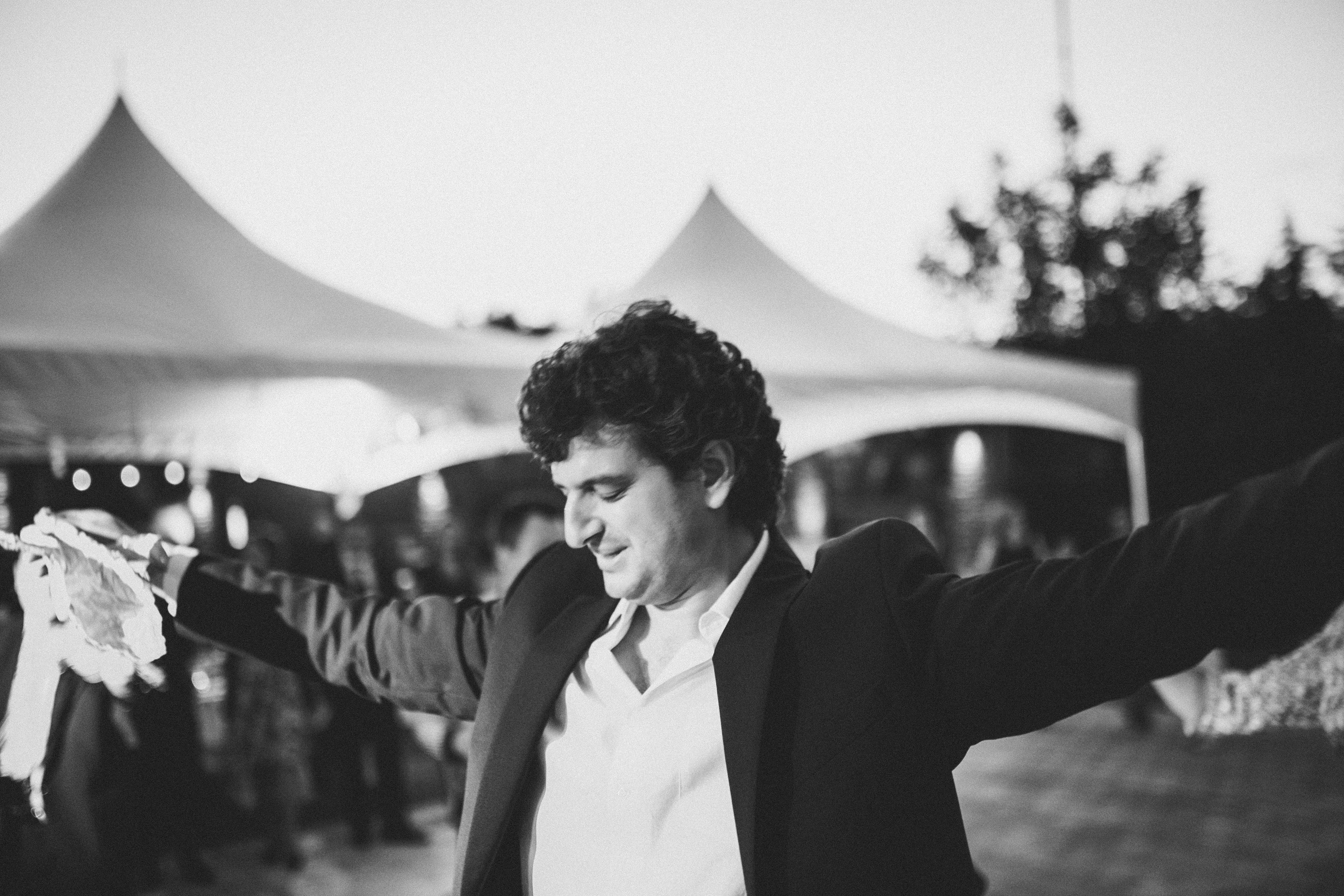 Macedonian person dancing Cocek